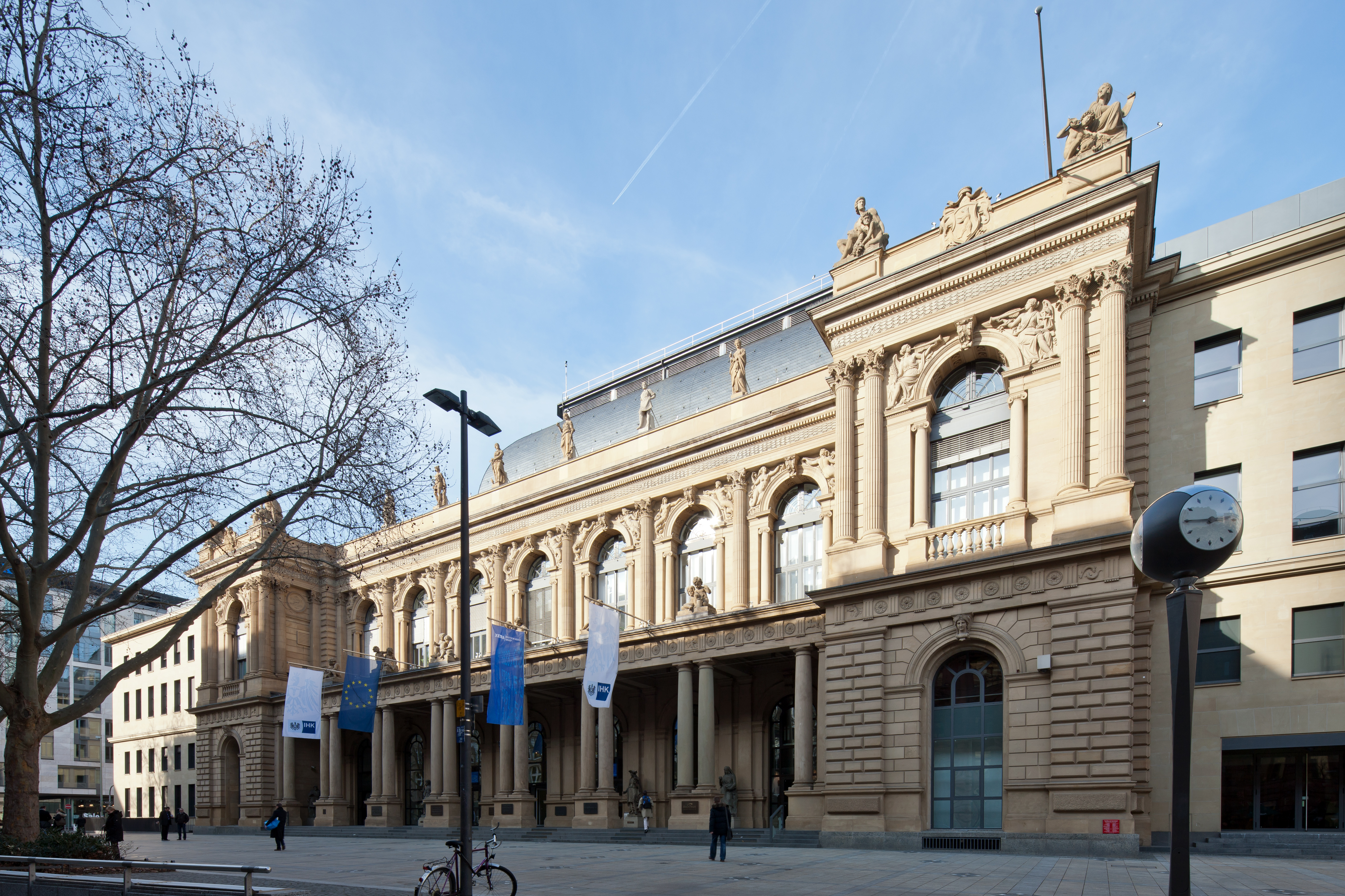 Frankfurt on the Main: Neue Börse (New Stock Exchange) as seen from the northeast